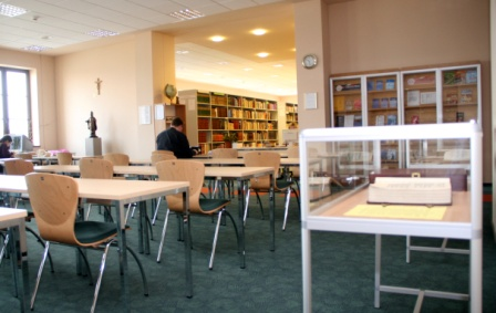 Reading room in WSKSiM library